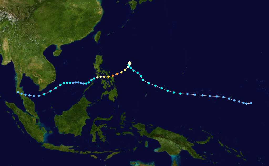 Typhoon Manny 1993 track. Uses the color scheme from the Saffir-Simpson Hurricane Scale.